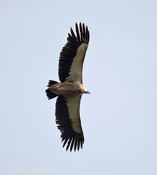 Himalayan Griffon Gyps himalayensis in Kullu District of Himachal Pradesh, India. Largest of the Gyps. with a size of about 120 cm., it is always a delight to watch it during Himalayan treks. Seen in the Himalayas from about 3000 ft. to say 13000 ft. THIS BIRD HAD ALWAYS FASCINATED THE TREKKERS ON THE WAY OVER THE YEARS, AS THEY SAW HIM GLIDE MAJESTICALLY IN THE VALLEYS OF HIMALAYAS FOR LONG PERIODS WITH GOOD VIEWS. IF WE REALLY CALL HIM THE KING OF HIMALAYAS, IT SHALL NOT BE INAPPROPRIATE.